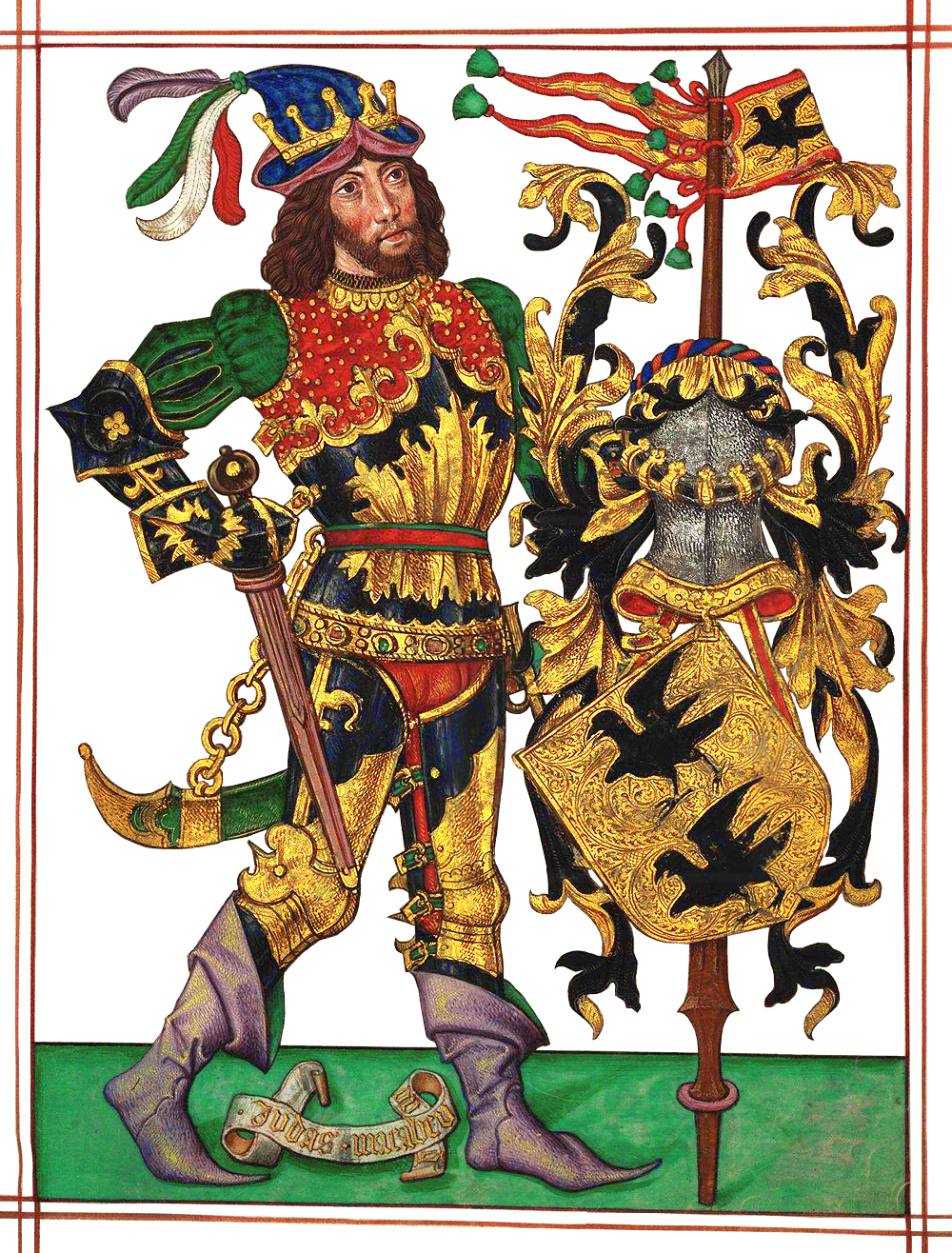 Judas Maccabeus